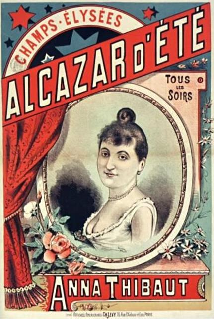 Poster for a performance of Anna Thibaud at the Alcazar d'Eté